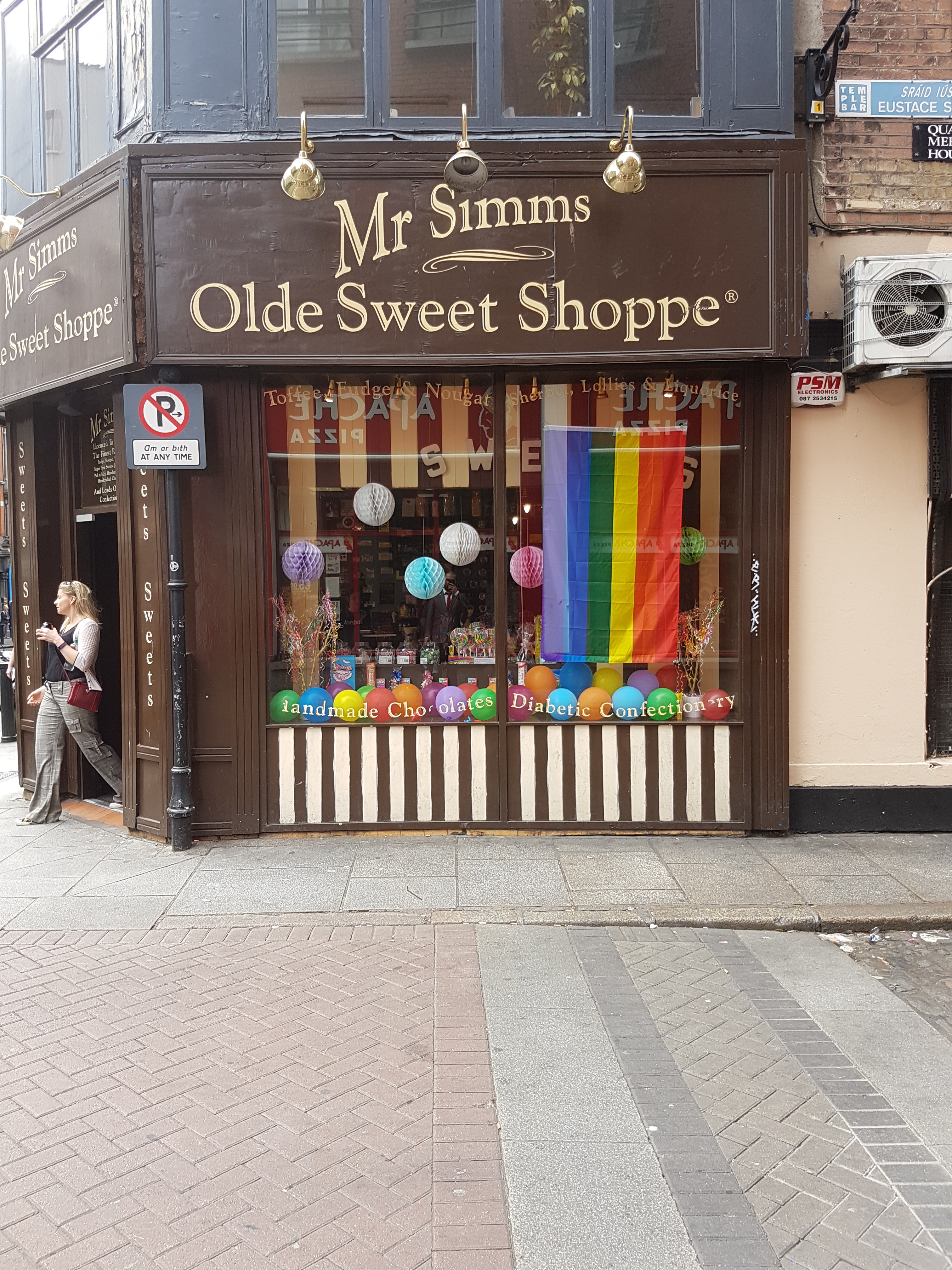 Mr Simms store, Dublin, Rep of Ireland